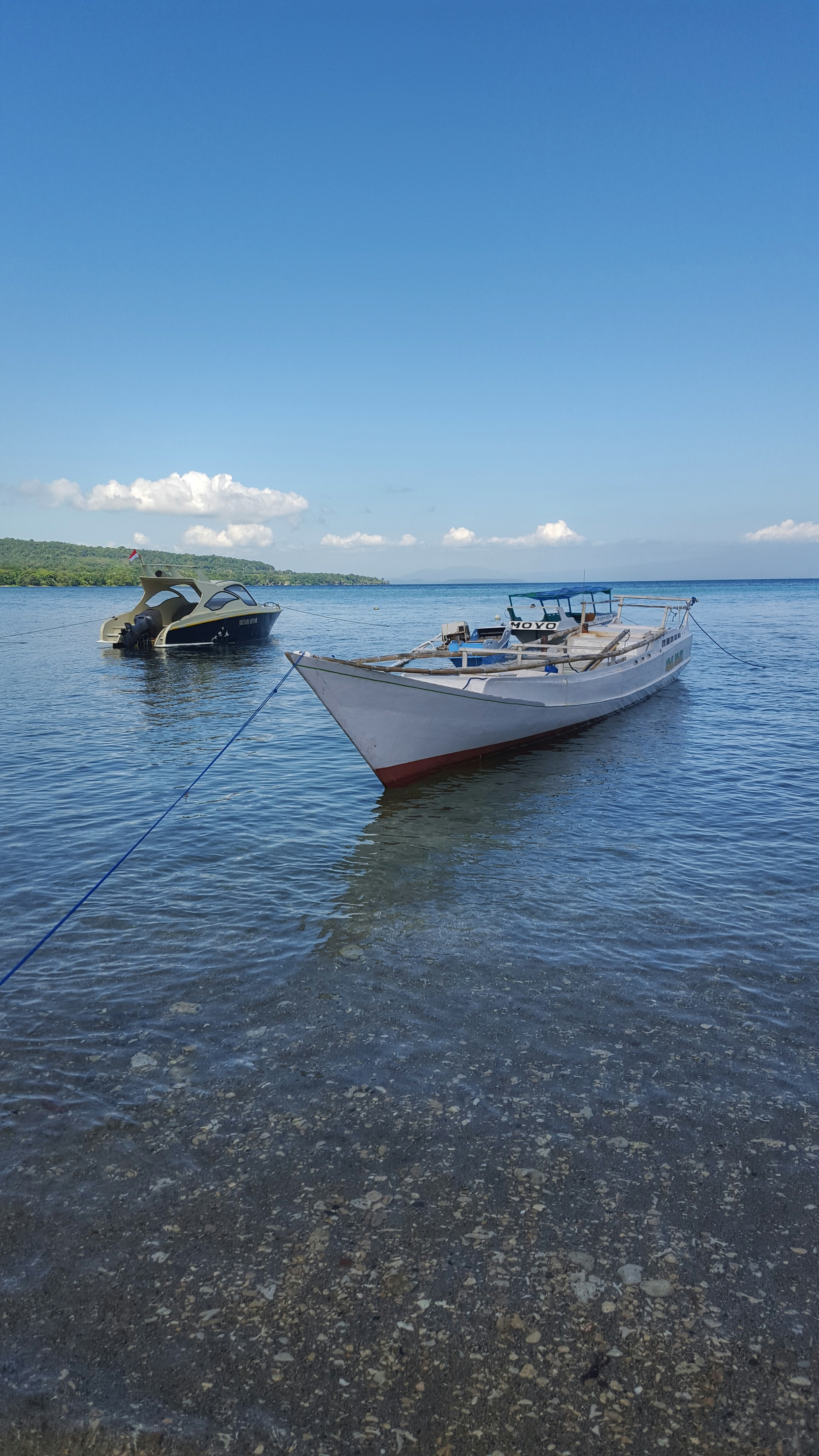 Its a beach side of a island nearby east nusa tenggara indonesia .. with the clear water beach and blue sky